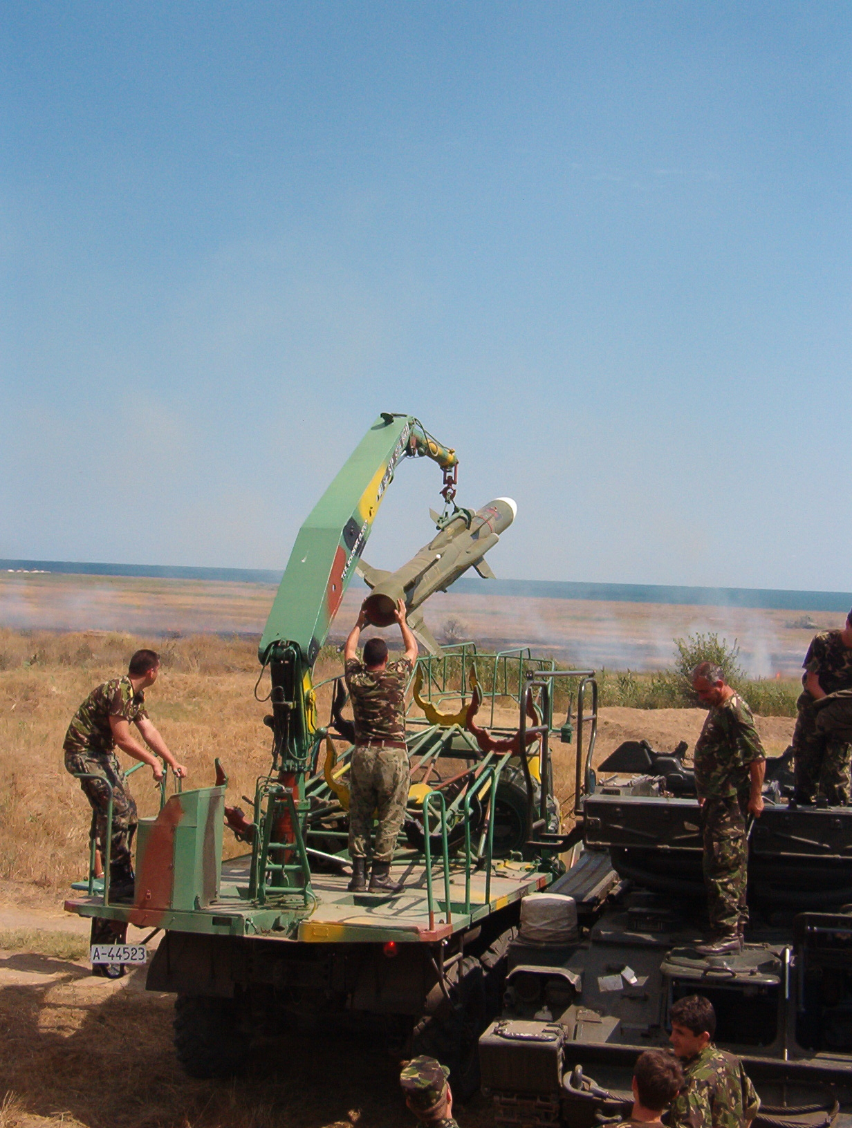 Romanian crew of a 2K12 Kub (NATO designation: SA-6 Gainful) loading missiles for a military exercise.